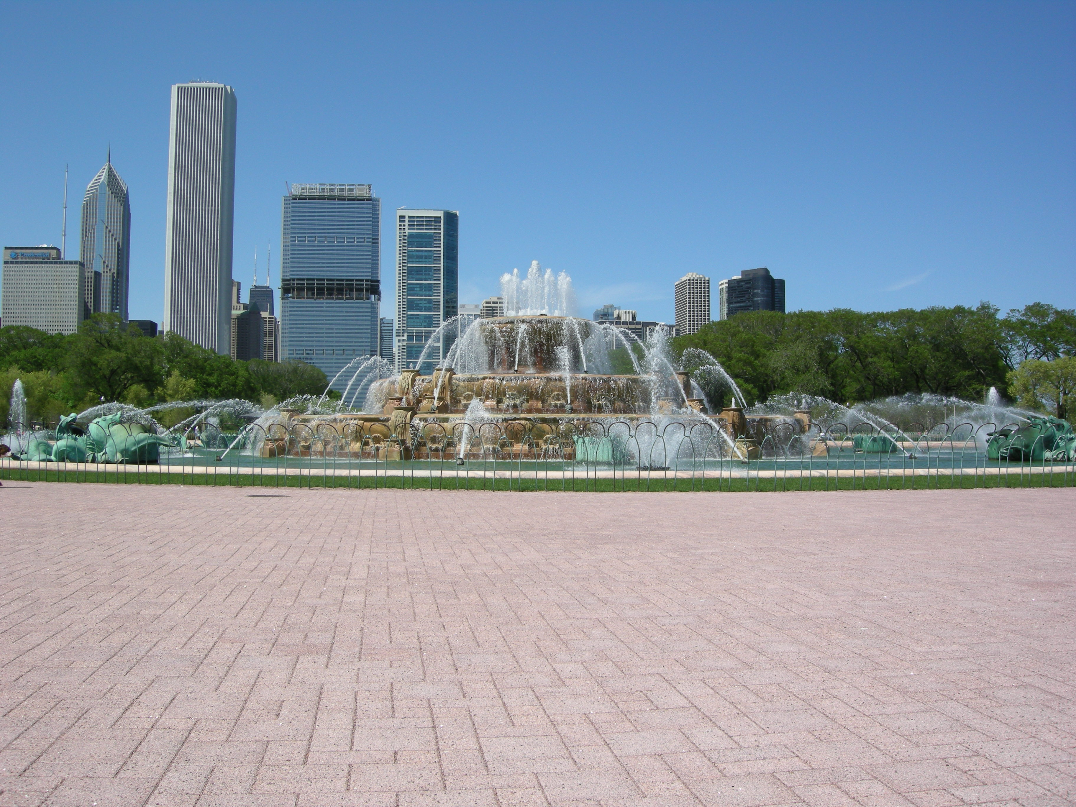 Buckingham Fountain and the new permeable paver Field after the 2009 renovation led by Thompson Dyke and Associates